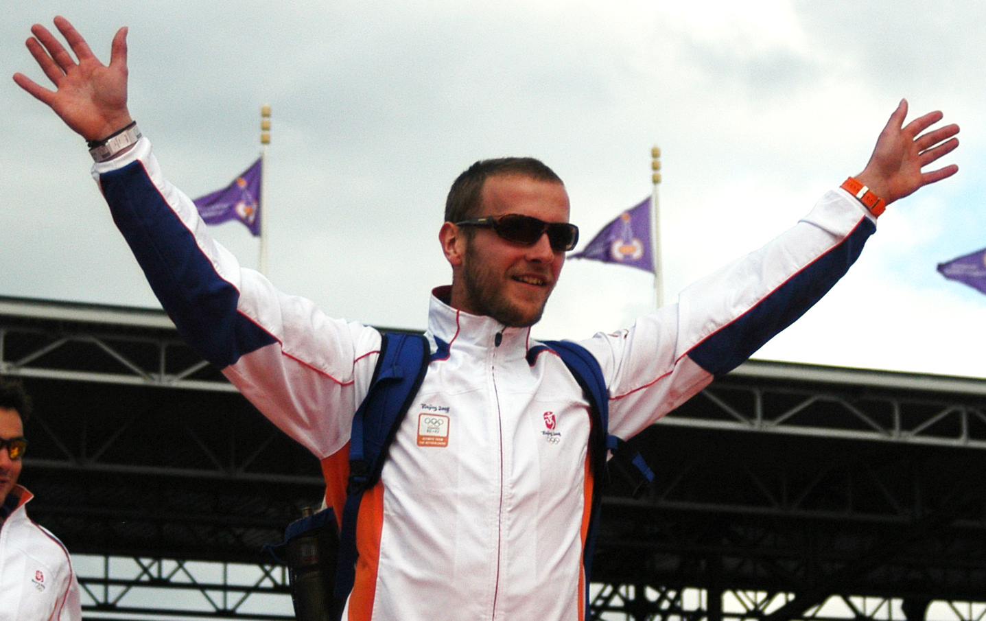 Teun Mulder at the Olympic welcome in the Olympic Stadium in Amsterdam, the Netherlands